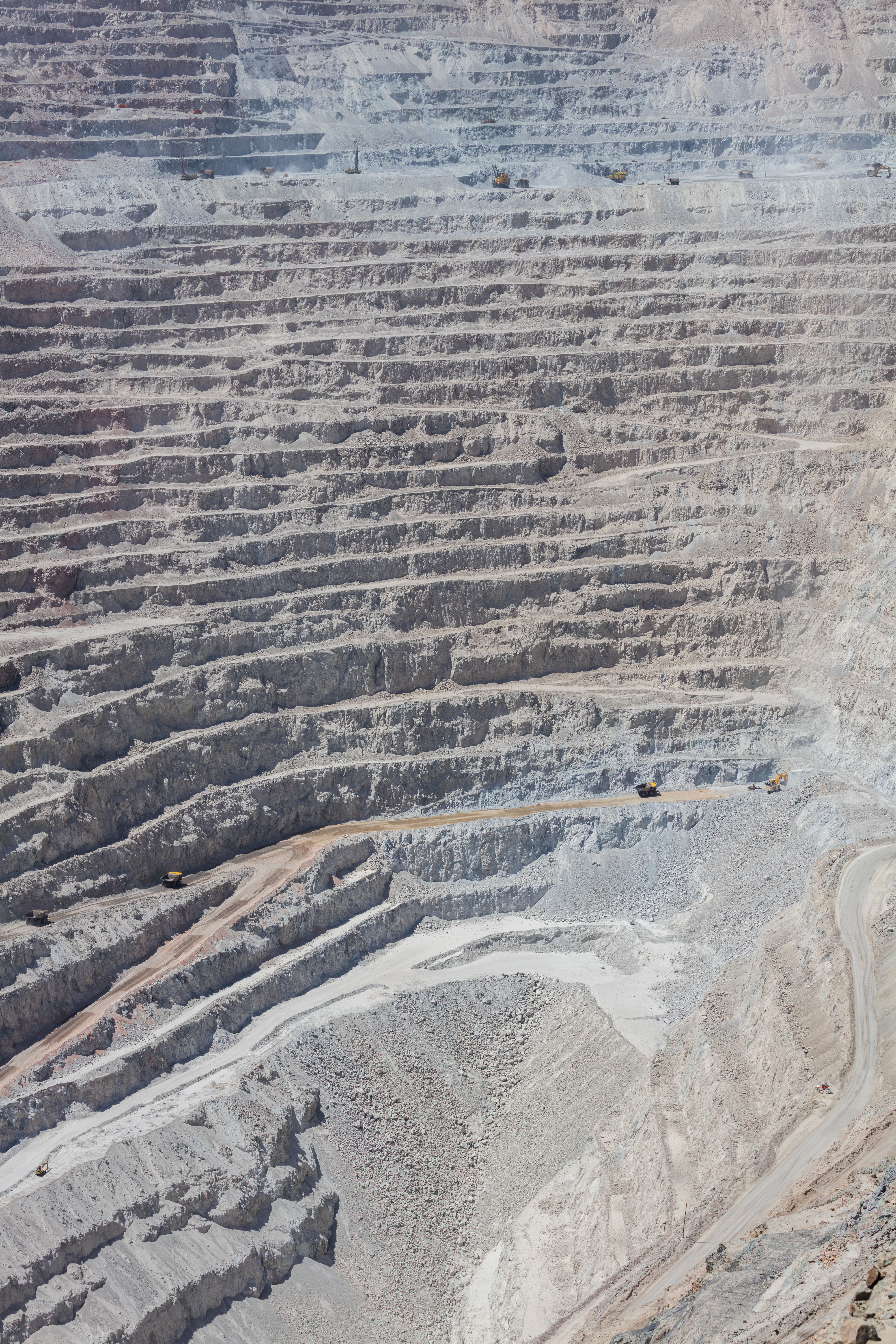 Interior view of Chuquicamata, a state-owned copper mine located 2,850 metres (9,350 ft) above sea level just outside Calama, north of Chile. It is by excavated volume the largest open pit copper mine in the world. The huge hole was started in 1882 as a mine to extract gold and copper. It is 3.5 kilometres (2.2 mi) long, 4.5 kilometres (2.8 mi) wide and with a depth of 850 metres (2,790 ft) it is the second deepest open-pit mine in the world (after Bingham Canyon Mine in Utah, USA).